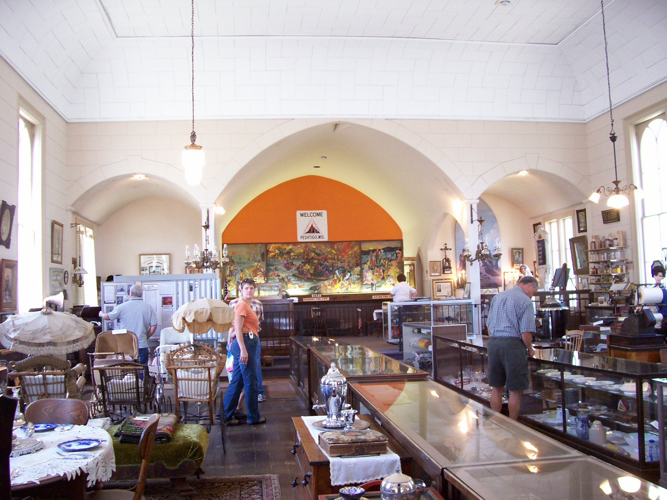 The front portion of the interior for the Peshtigo Fire Museum in Peshtigo, Wisconsin, USA.